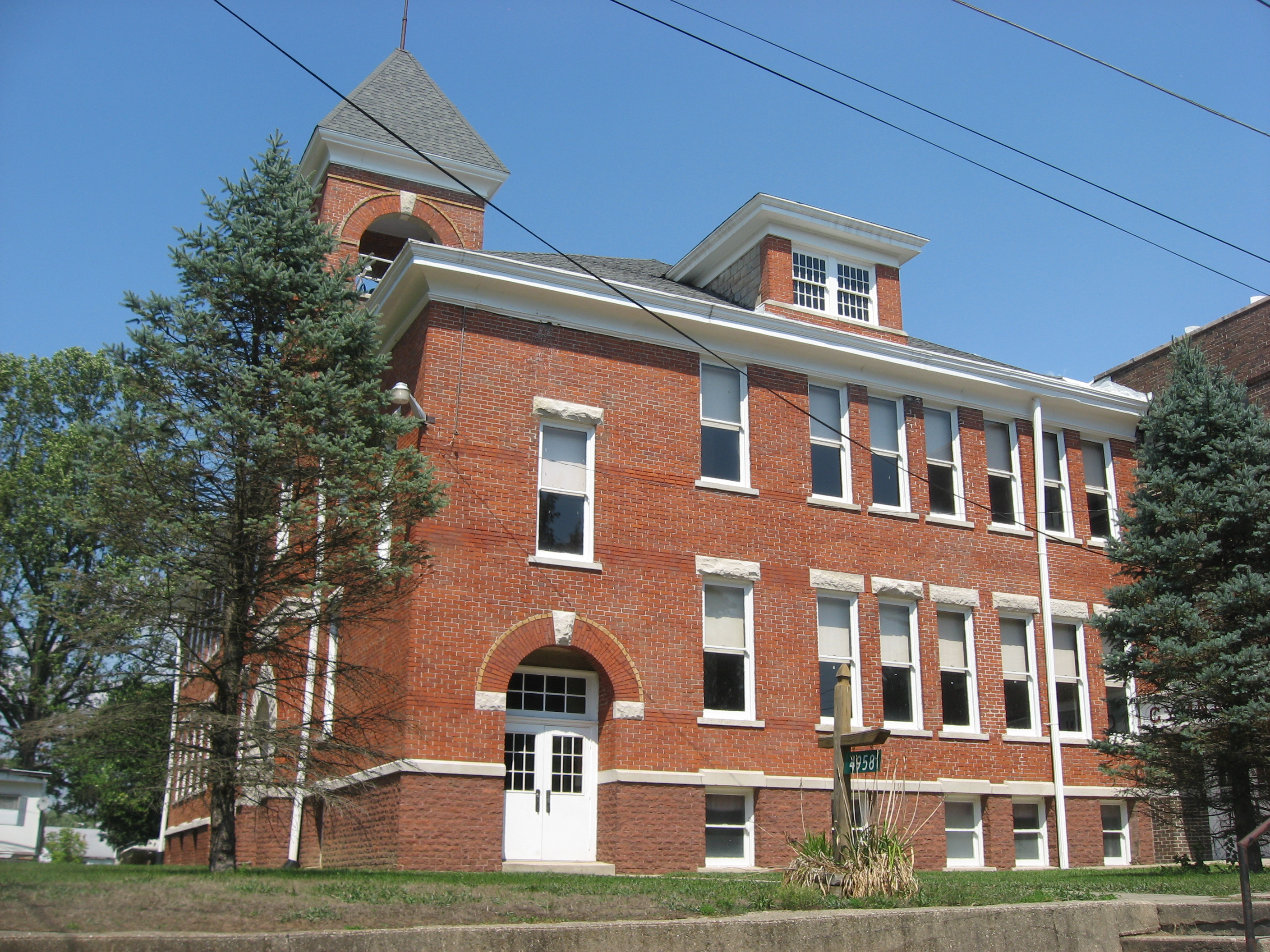 Front of the Wabash Township Graded School, located at 4958 College Street in Mecca, Indiana, United States. Built in 1901, it is listed on the National Register of Historic Places.